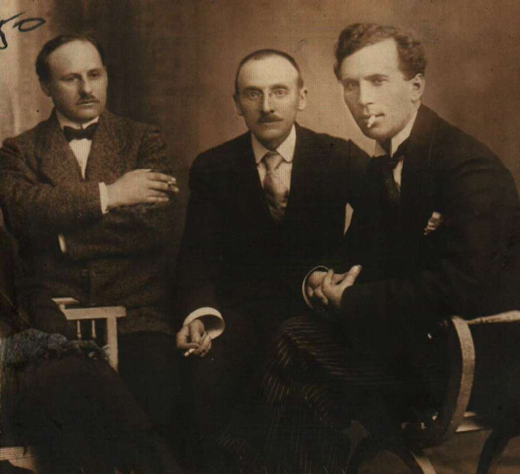 Tihomir Pavlov, Piligrim Slivopolski and Rayko Aleksiev, Lyudokos Magazine, Bulgaria